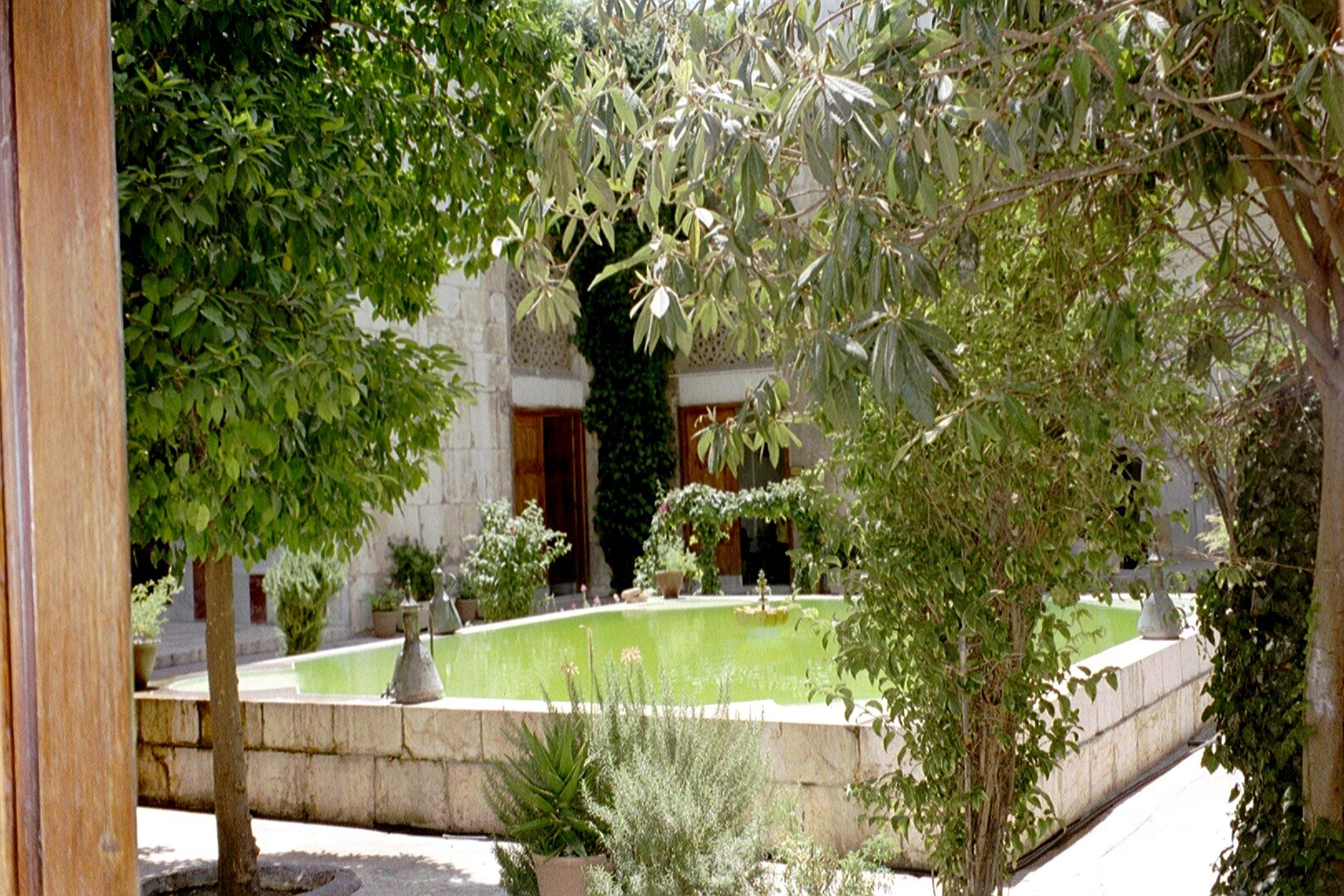 Nur al-Din Bimaristan, Damascus, Syria. Picture taken by me in June, 2001, with an automatic Olympus mju:zoom140 camera.